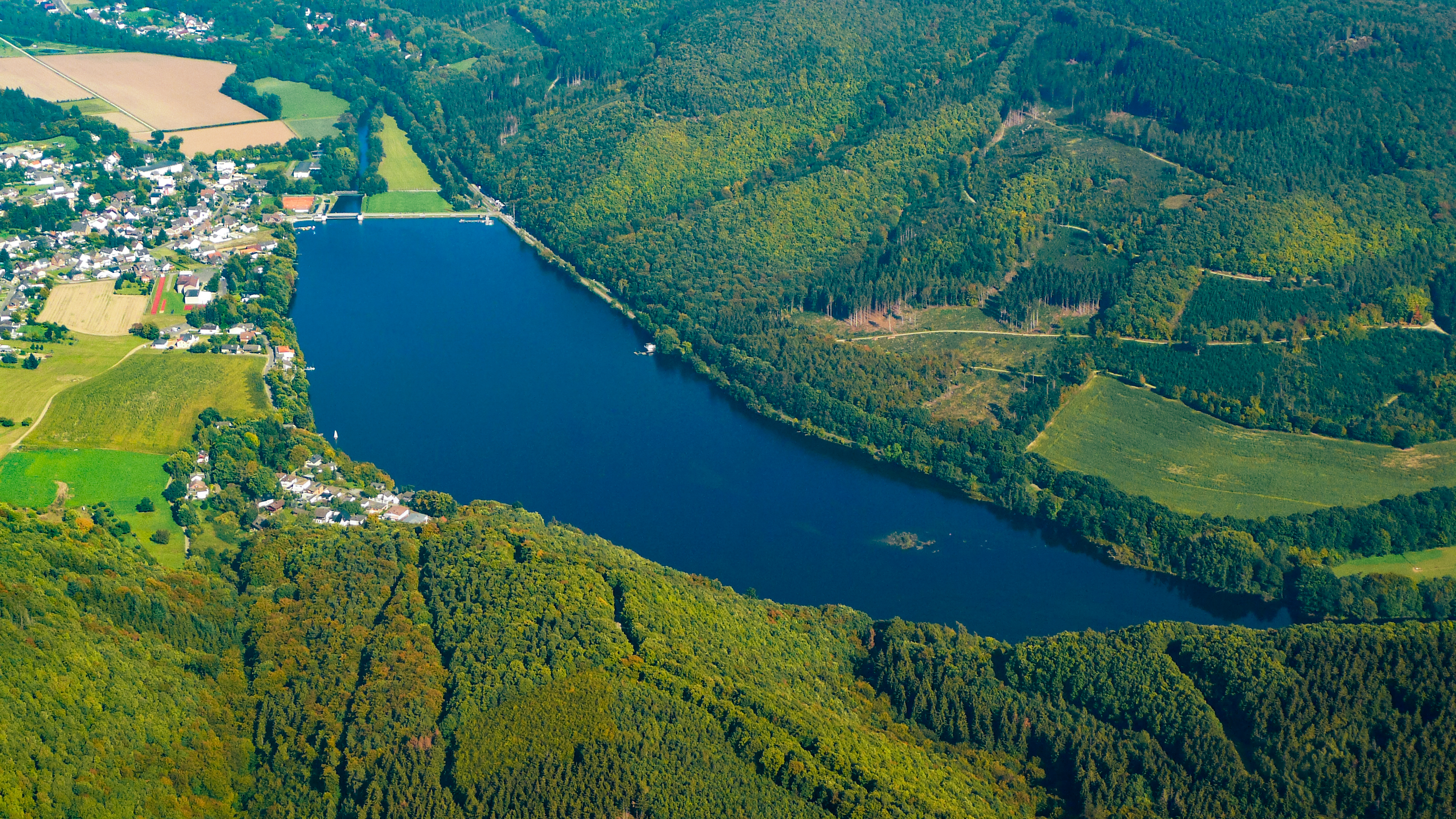 Reservoir Obermaubach, Eifel, Germany